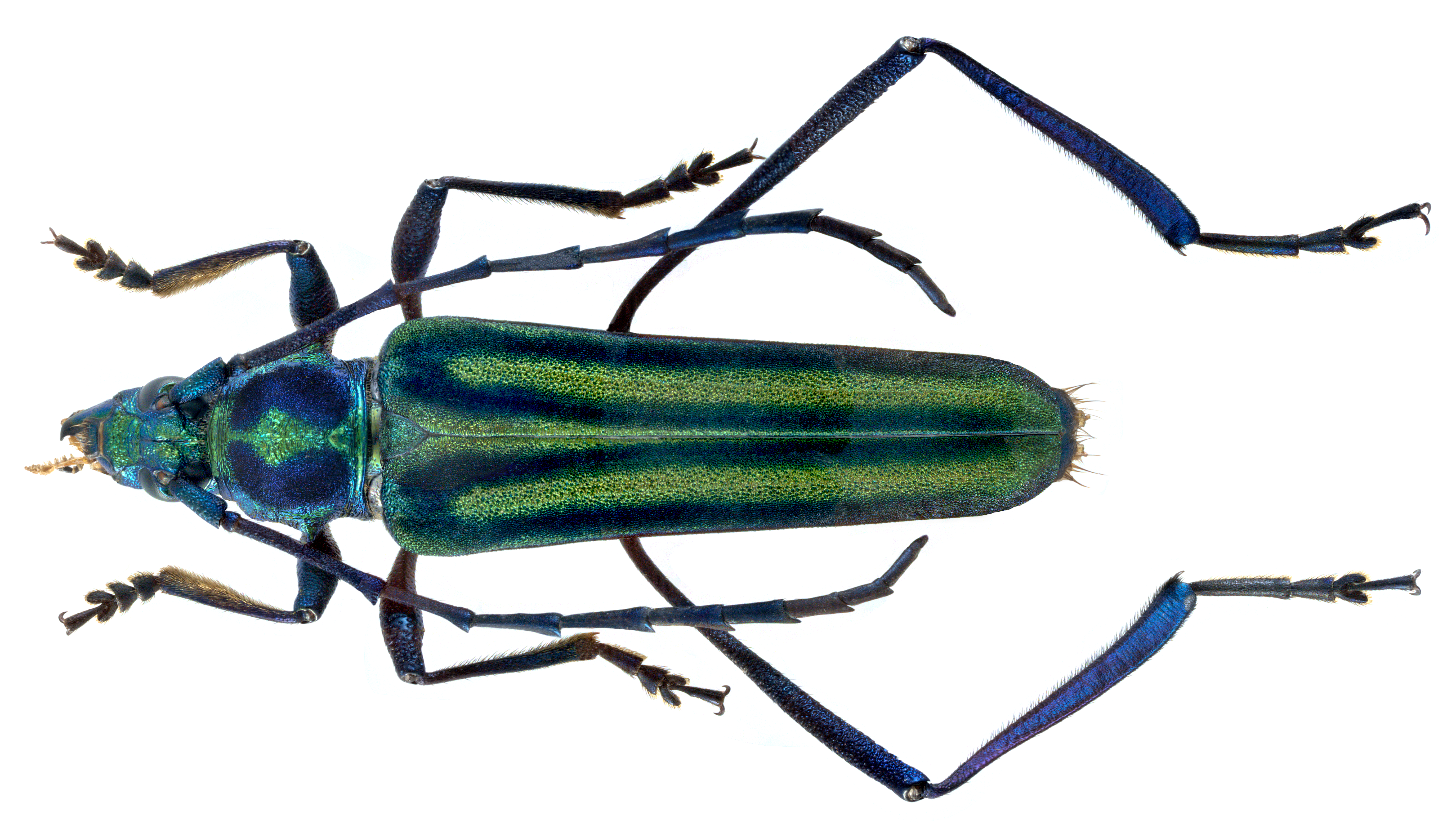 Family: Cerambycidae Size: 21,5 mm Location: Malaysia, Borneo, Sabah North, Trus Madi, 1500 m leg. local collector, V.-VI.2011 Coll. A.Skale Photo: U.Schmidt, 2013